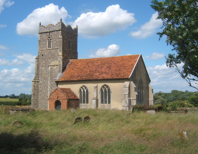 St Mary's Church, Letheringham, Suffolk. For more information